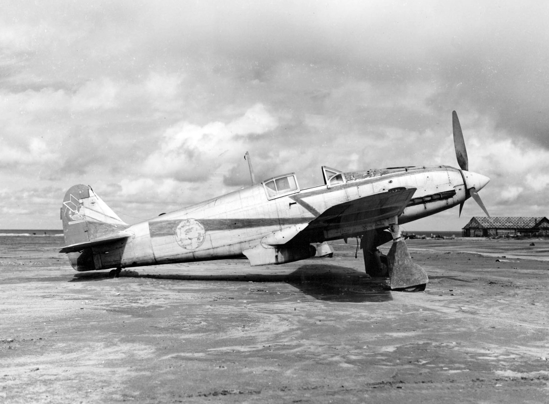 A Japanese Kawasaki Ki-61 Hien (Allied code name "Tony") of 149th Shimbu Unit at Ashiya airfield in Fukuoka, Japan.